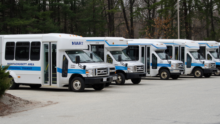 MART shuttle vans at the Montachusett Regional Transit Authority lot in Fitchburg, Massachusetts.